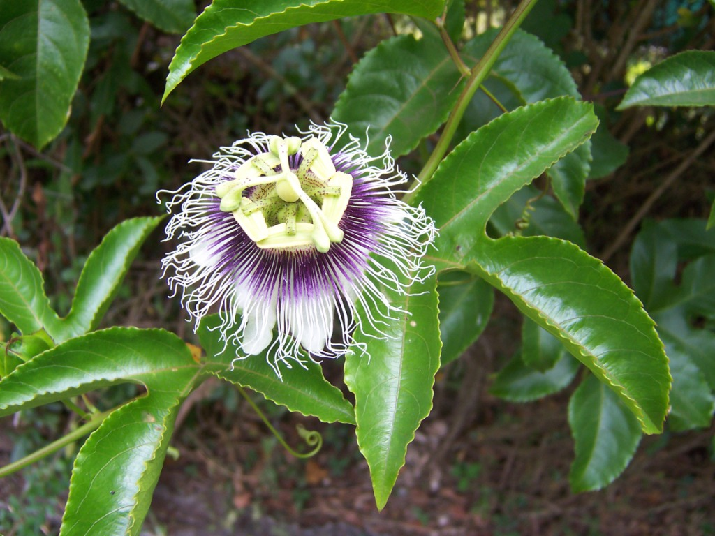 Passiflora edulis (flower) Photo: B.navez - 23 OCT 2005 - Réunion Island